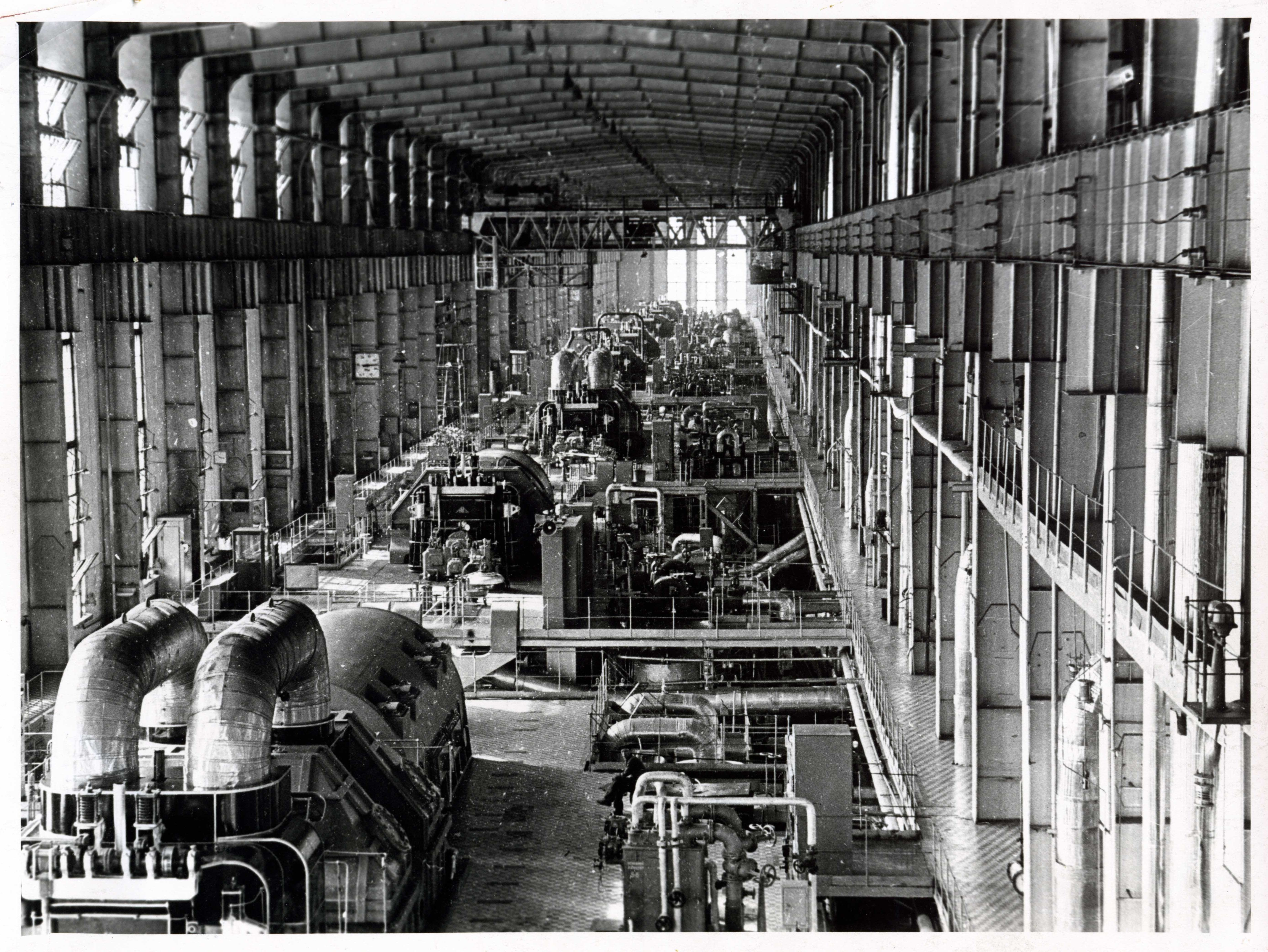 Steam turbines hall of Southern Kuzbass Power Plant, 1970